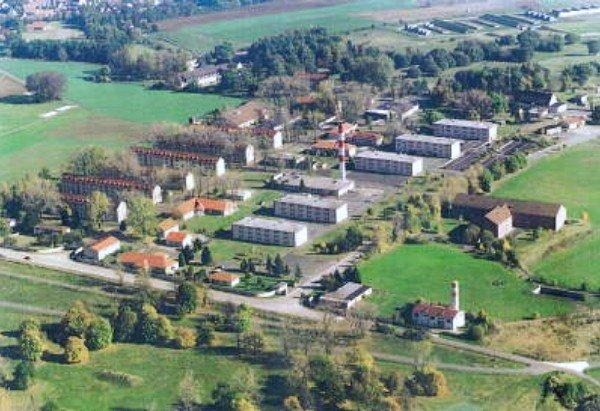 Overview of "The Rock"